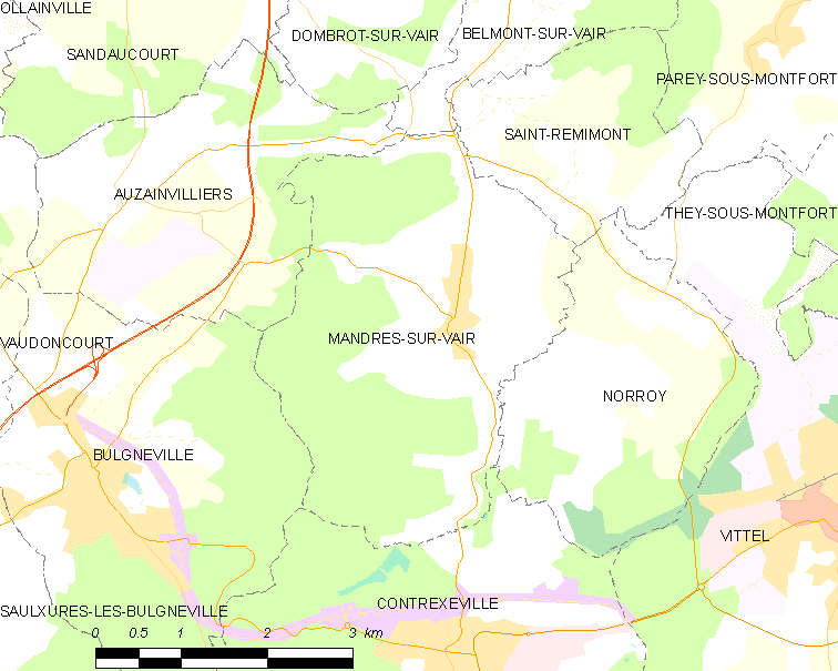 Map of French municipality Mandres-sur-Vair